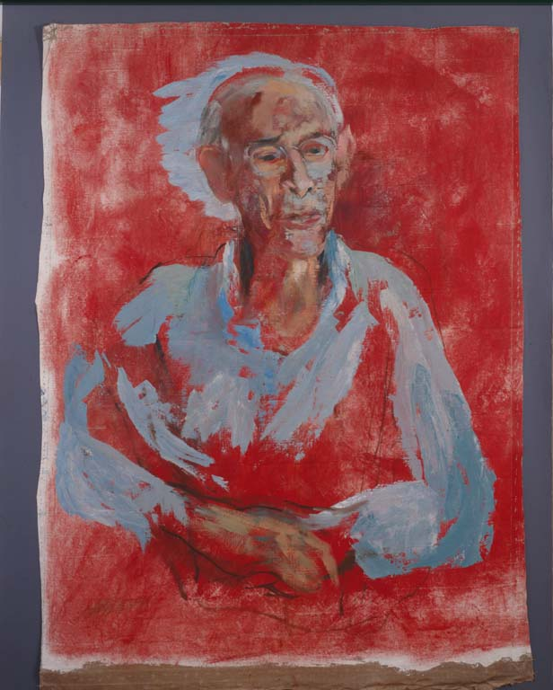 Robert L. Lepper 60"x44"